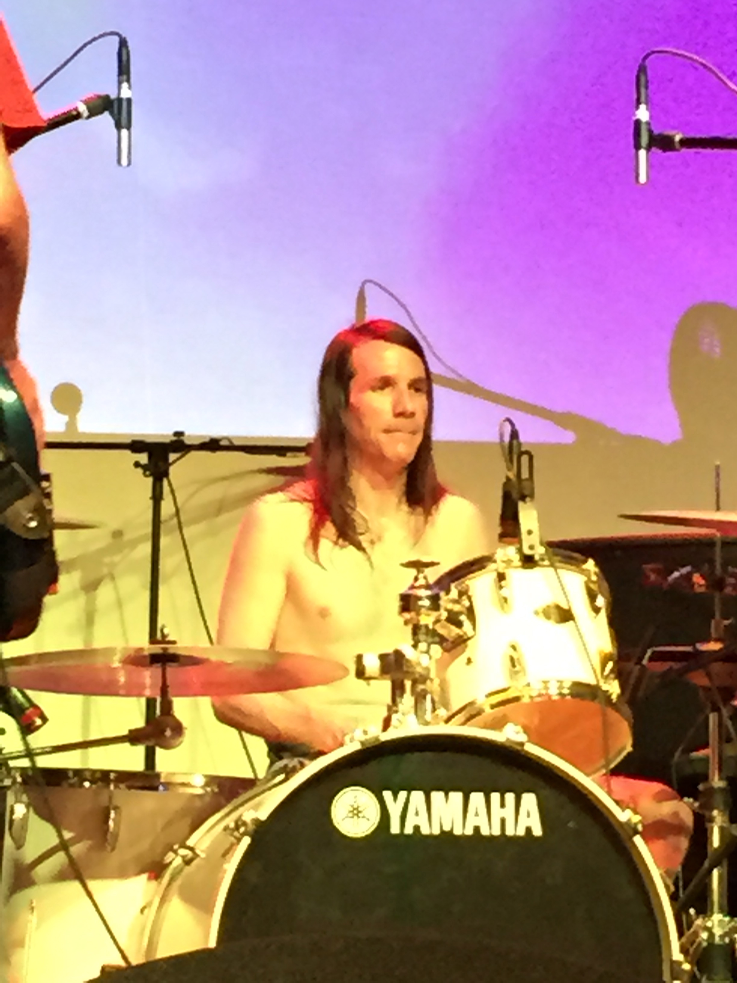 Meat Puppets drummer Shandon Sahm, performing on June 26, 2015, at the Suffolk Theater in Riverhead, NY.